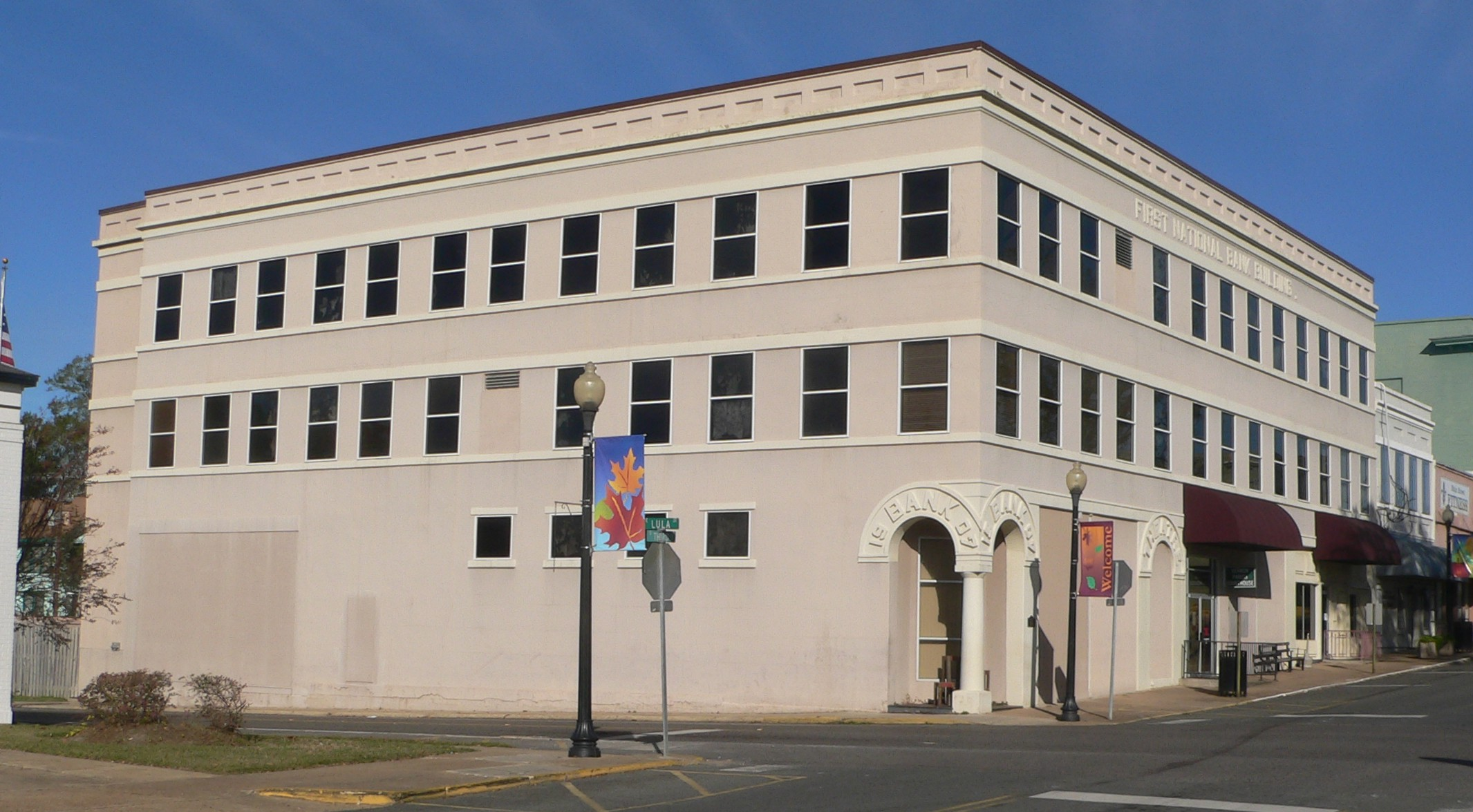 Downtown Leesville, Louisiana: First National Bank building, at northwest corner of 3rd and Lula Streets. The building is a contributing property in the Downtown Leesville Historic District, listed in the National Register of Historic Places.